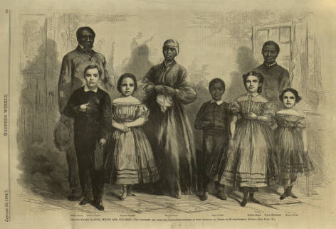 A woodcut of the portrayal of White slave propaganda that appeared in Harper's Weekly on 30 January, 1864.